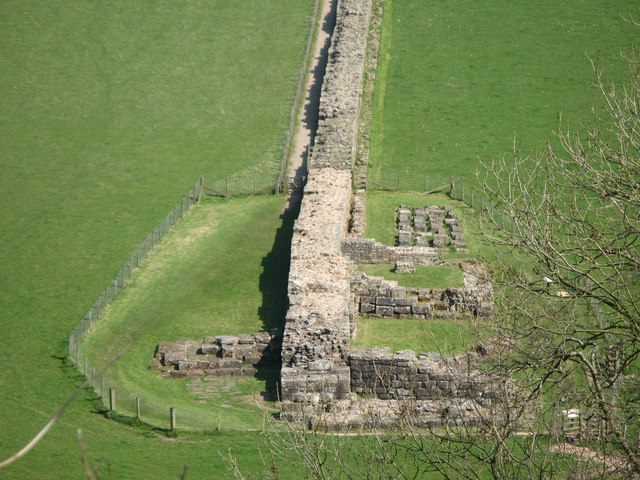 The eastern abutment of Willowford Bridge